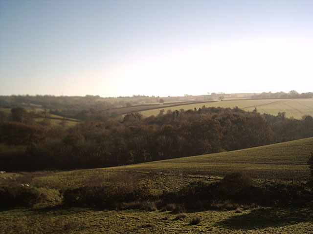 View of Millsome Castle from Taw Green. Taken on the Tarka Trail. The site of Millsome Castle is actually in SS6605